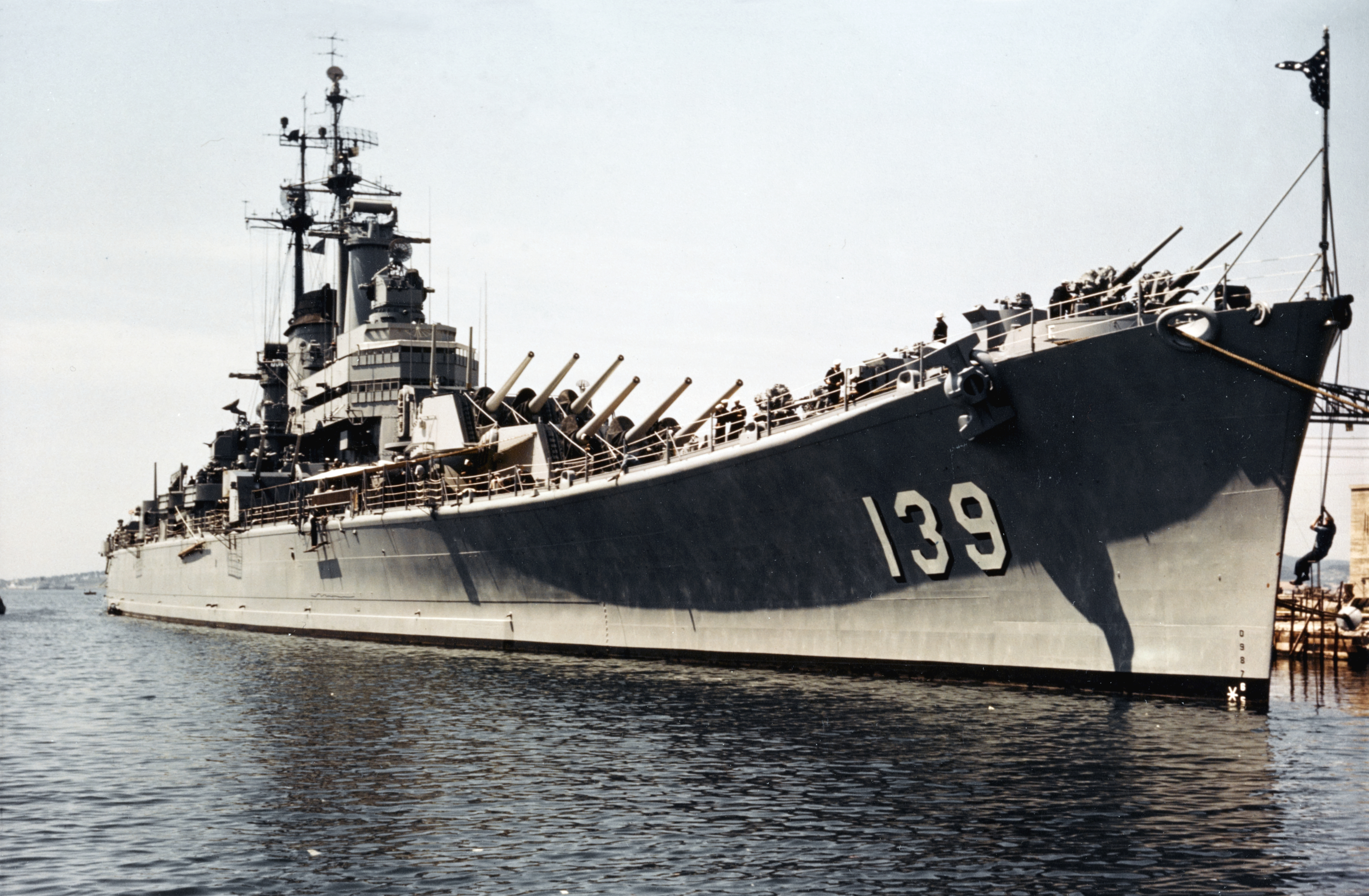 The U.S. Navy heavy cruiser USS Salem (CA-139) at Toulon, France, 18 June 1951.